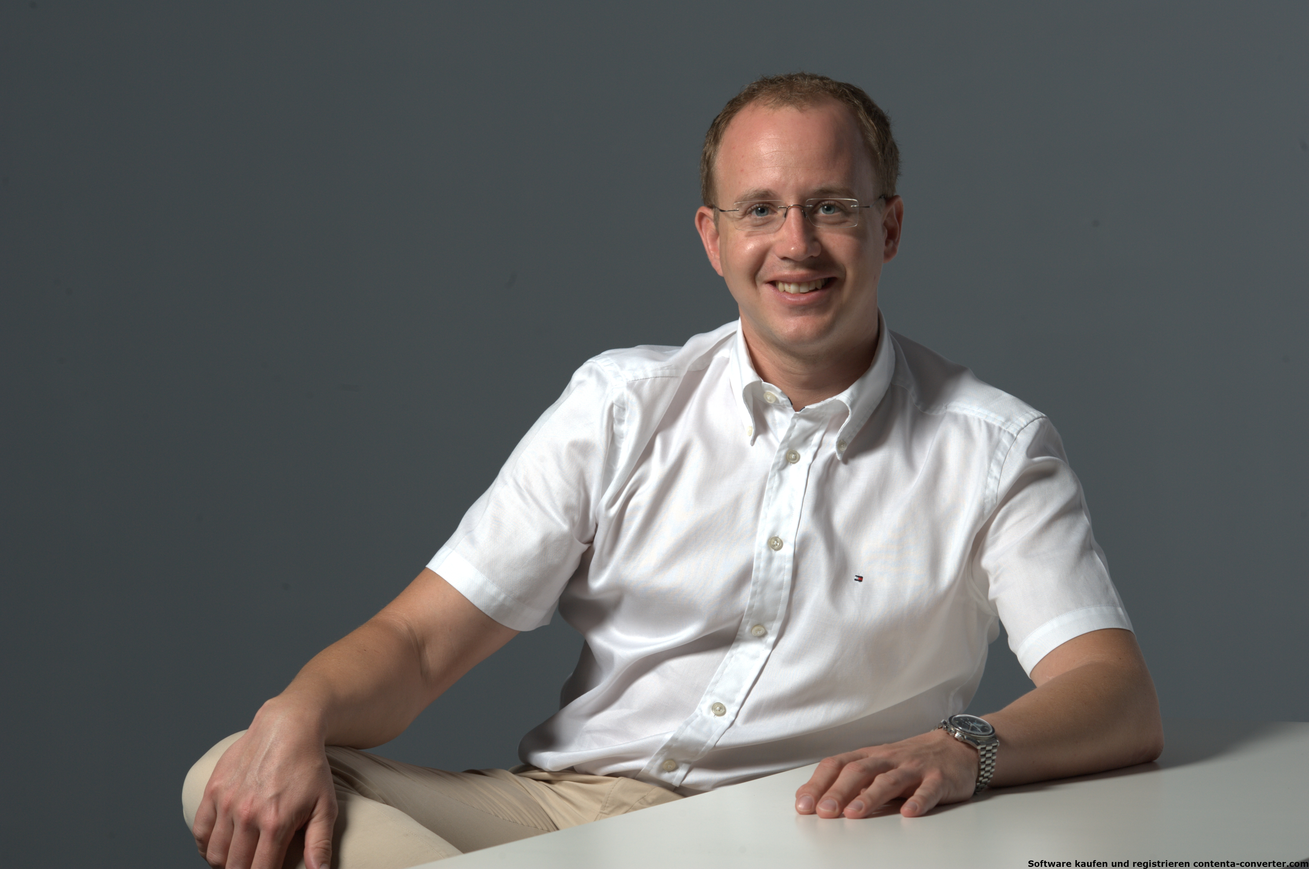 Markus Altenfels